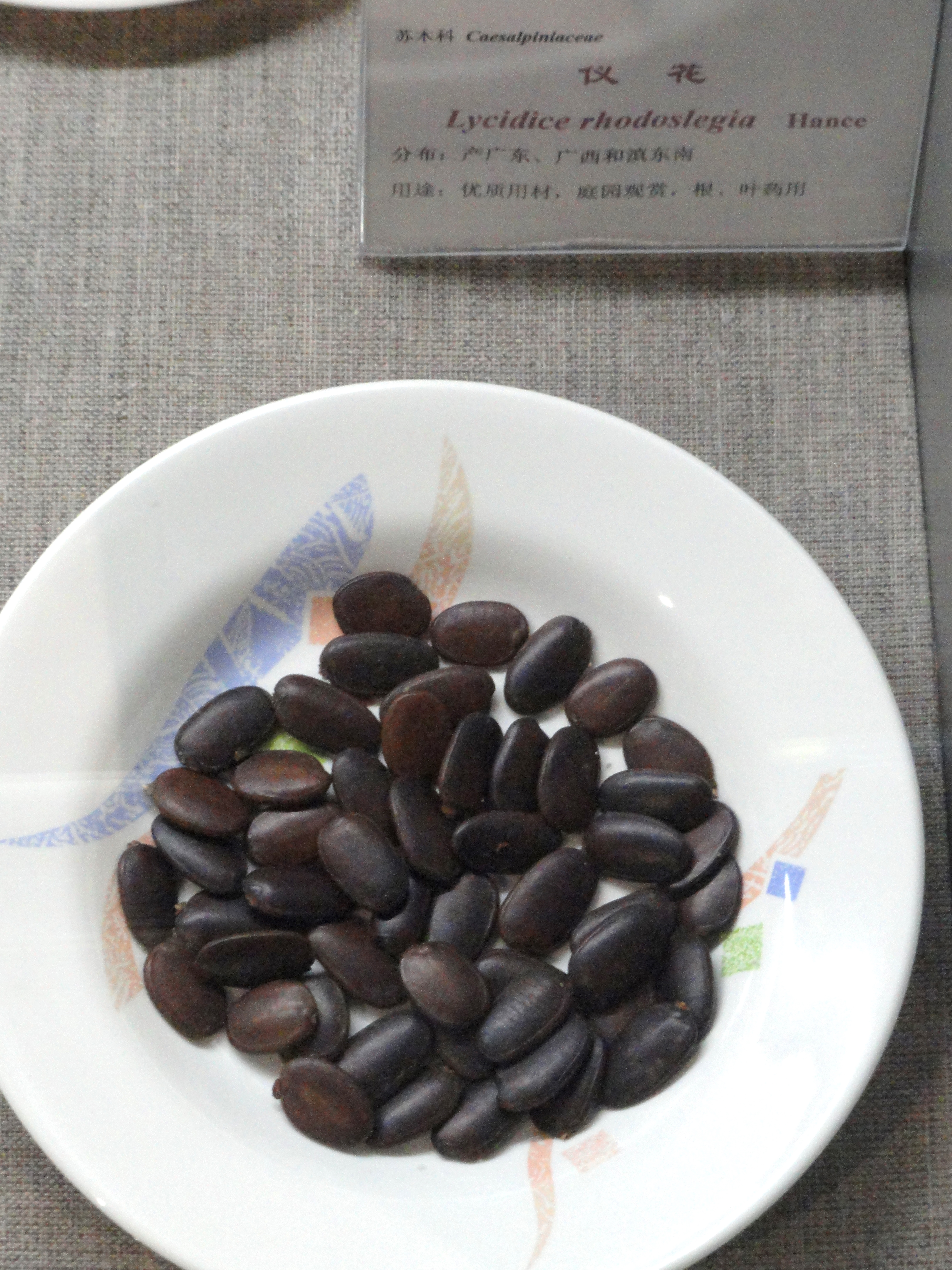 Seeds exhibited in the Kunming Botanical Garden, Kunming, Yunnan, China.